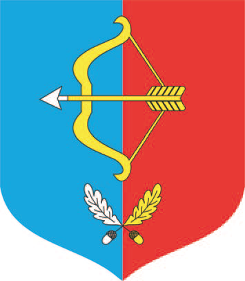 Coat of arms of Pinsk District